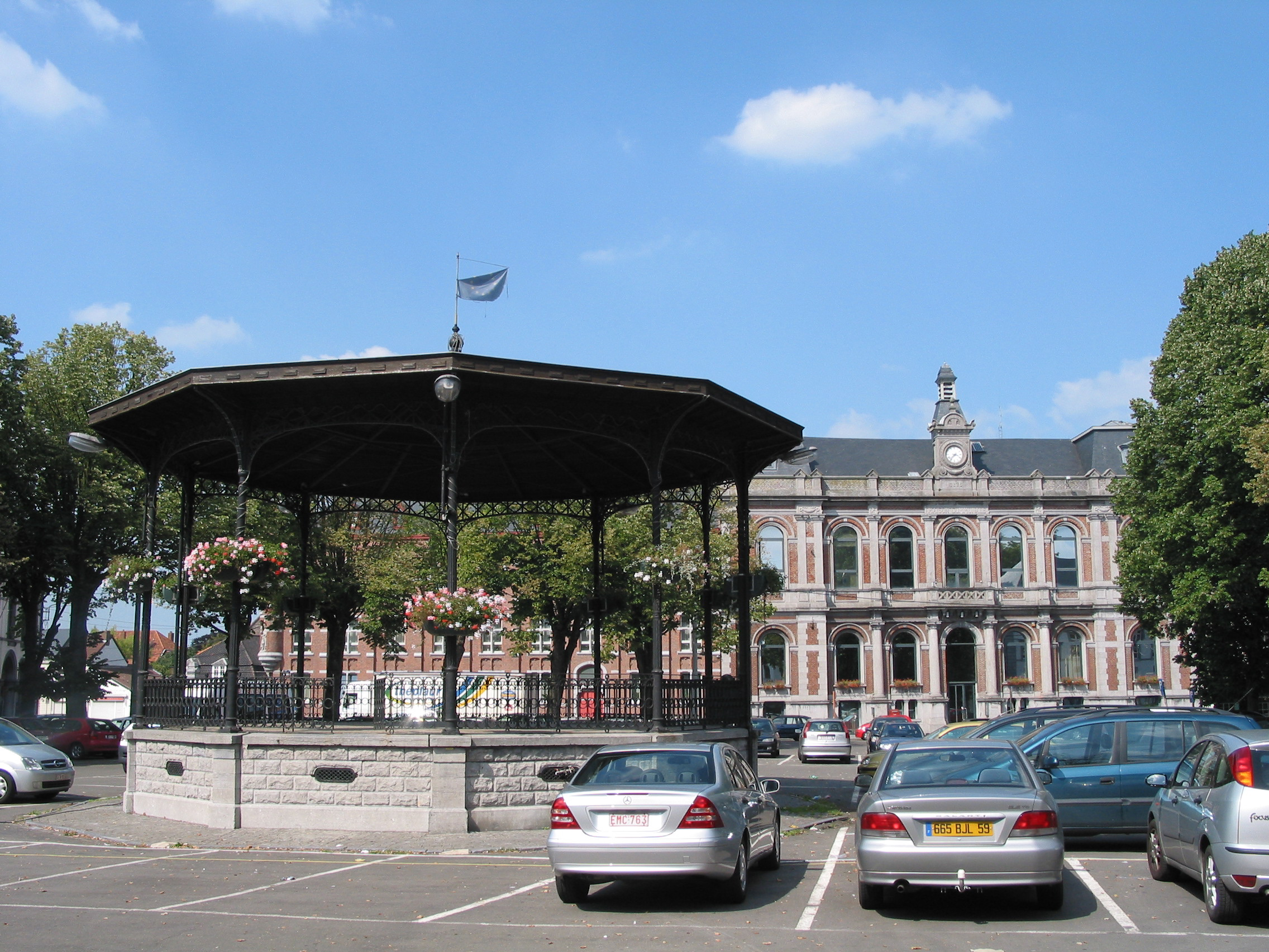 Boussu (Belgium), the banstand and the communal house.